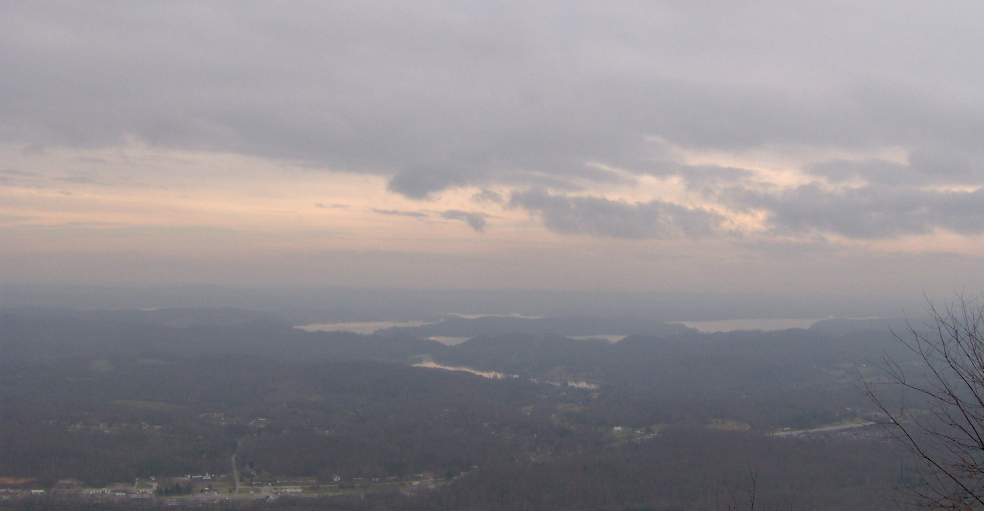 The Tennessee Valley, looking east from Mount Roosevelt, at the edge of the Cumberland Plateau. The Watts Bar Lake impoundment of the Tennessee River is below, toward the center of the photograph. Part of Rockwood, Tennessee is in the lower left corner. On a clear day, the Great Smoky Mountains span the horizon.